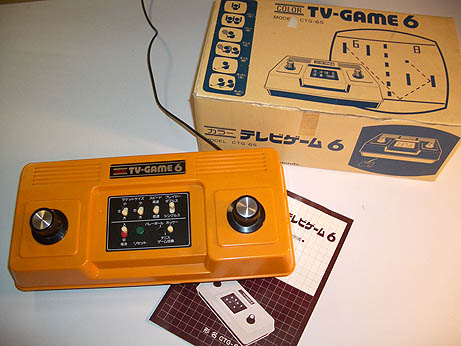 Nintendo's "Color TV Game 6"